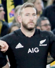 2017.08.19.20.03.20-NZL anthem-0001 2017 Rugby Championship, Bledisloe 1, Australia vs New Zealand, 19th August, ANZ Stadium, Sydney